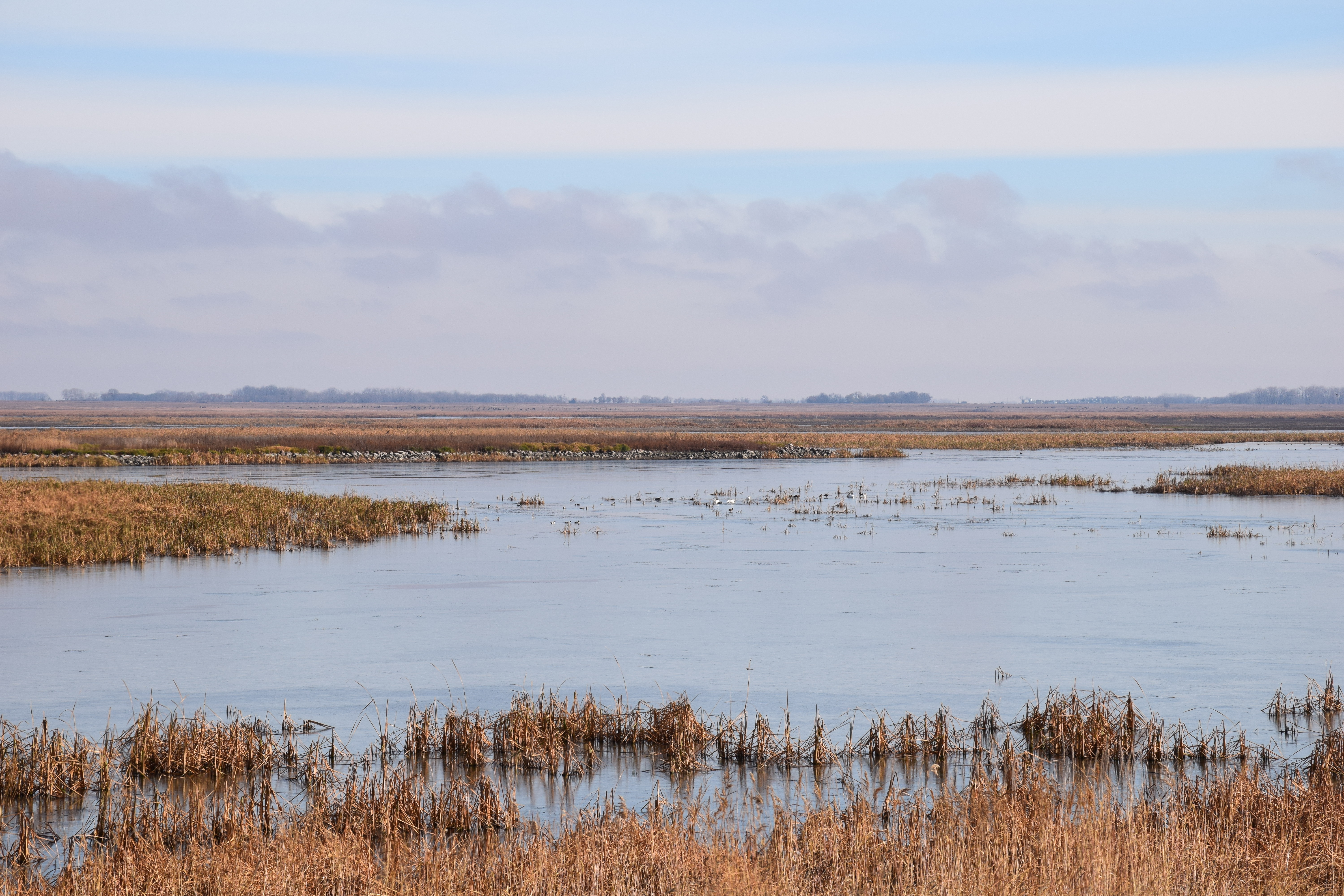 A few ducks and swans rest in the marsh at J. Clark Salyer NWR. Photo Credit: Colette Guariglia/USFWS